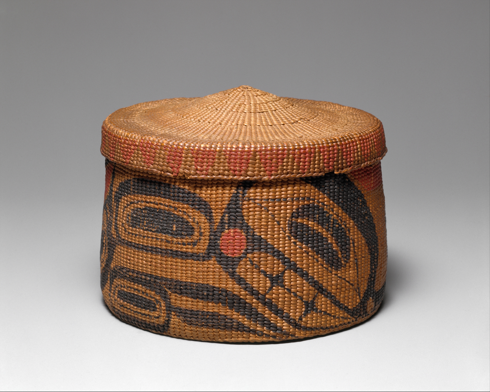 Haida; Basket with lid; Basketry-Containers